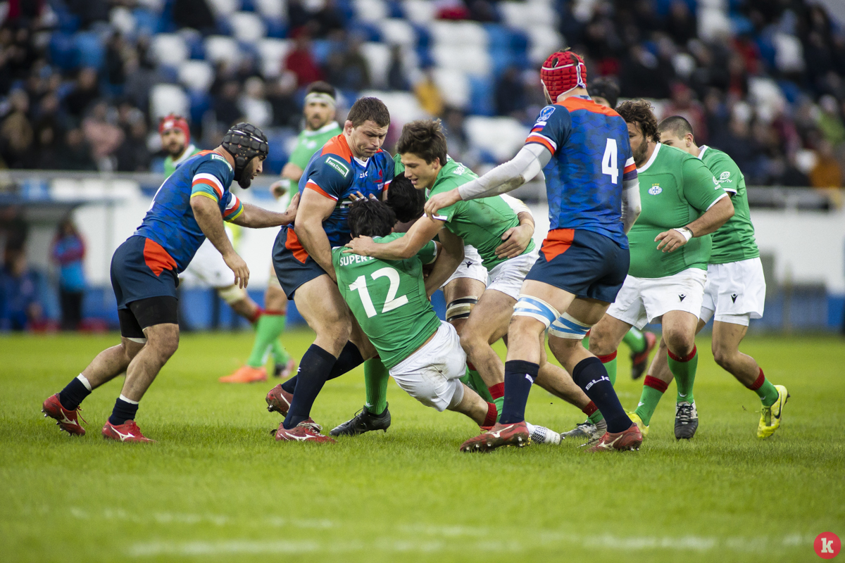 2019-2020 REIC Men XV: Russia vs. Portugal (2020-02-22)